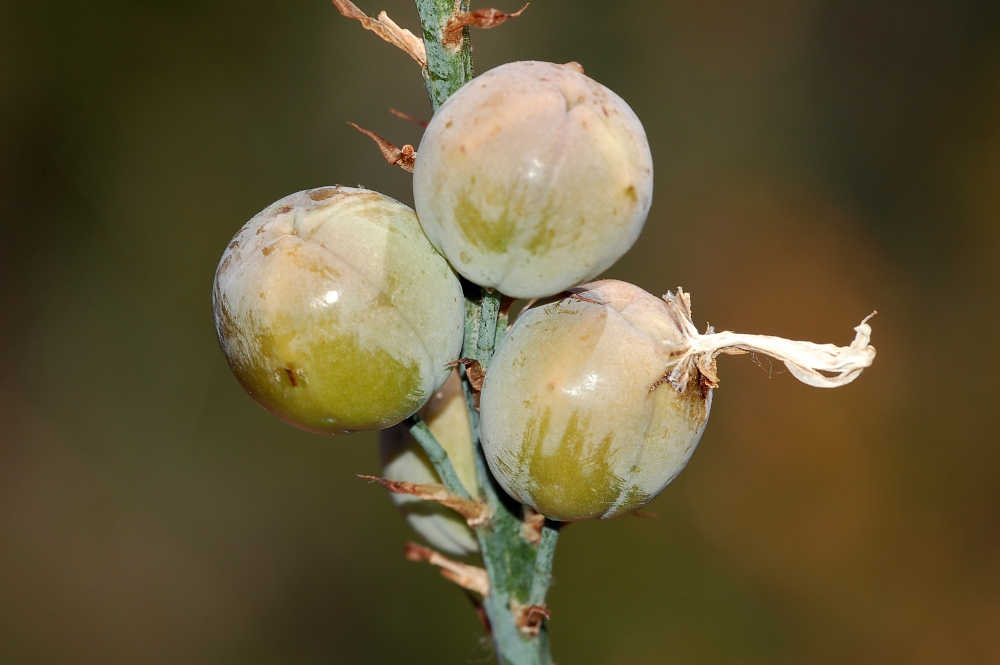 cf. Aristolochia pistolochia, Bedarieux Orb, Languedoc-Roussillon, France